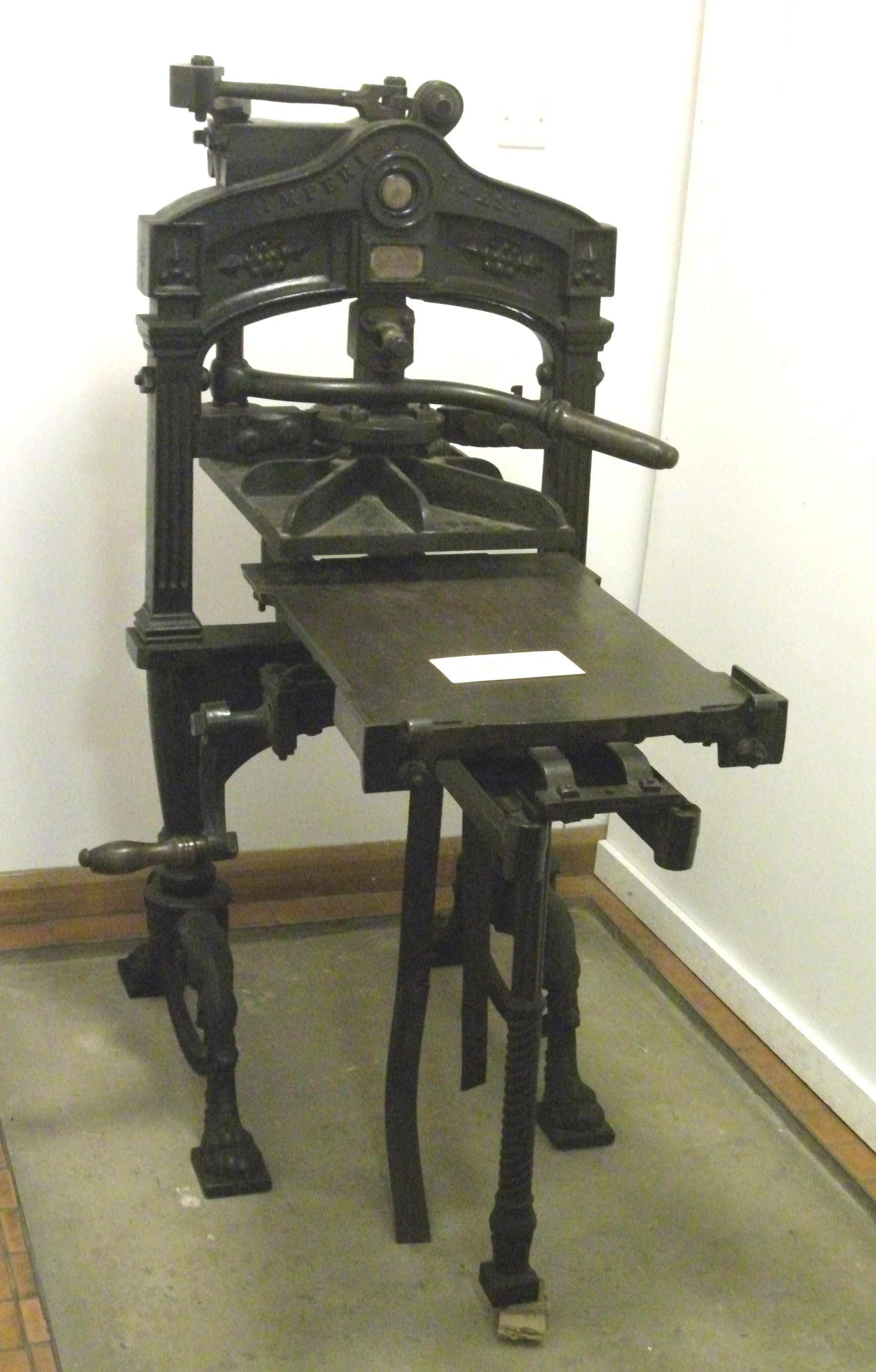 Printing press, "Imperial" brand, made around 1860 and used by the Bedfordshire Times newspaper to print a proof copy of the front page. On display in Bedford Museum.